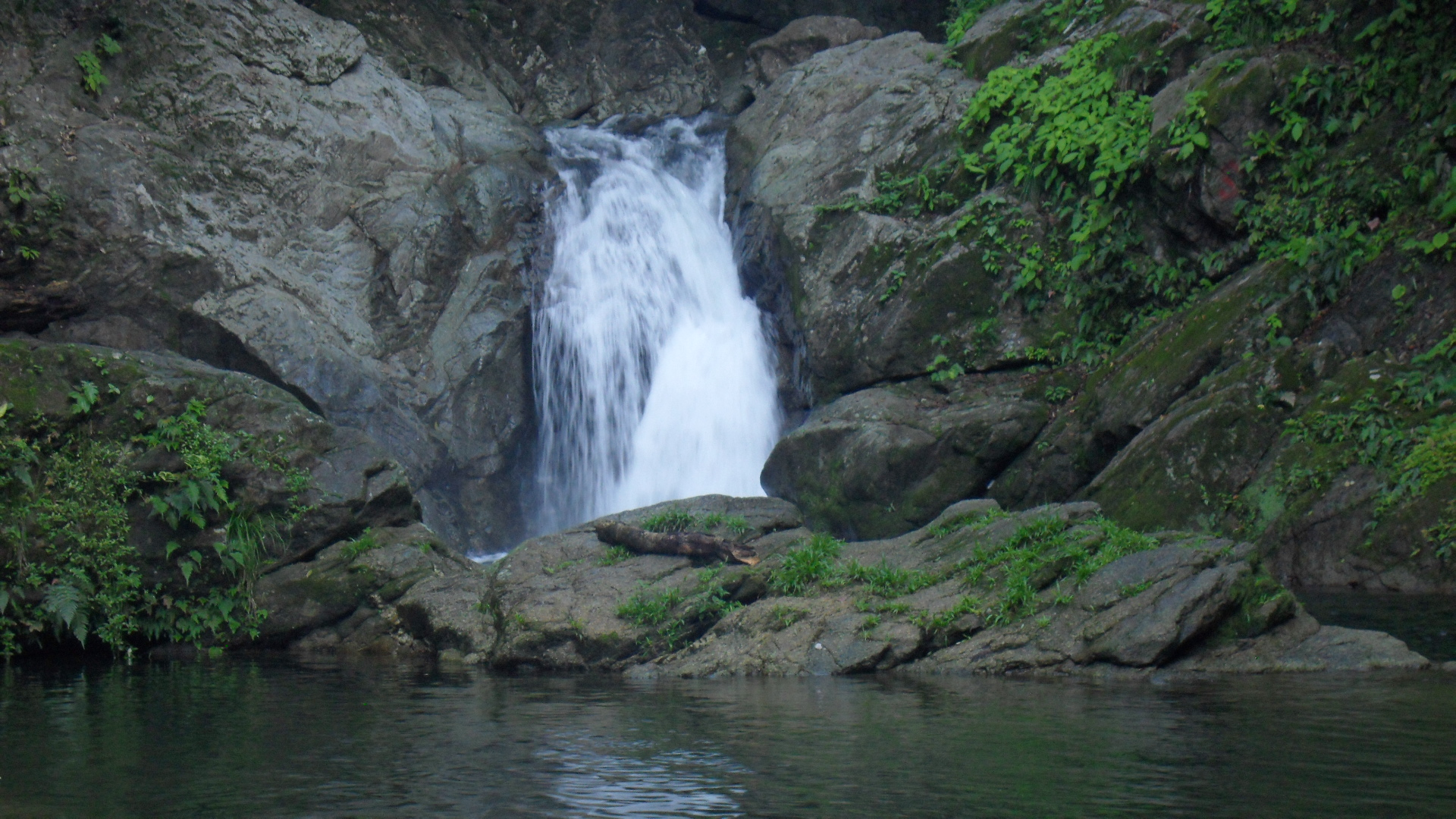 Caruao - Estado Vargas. Venezuela